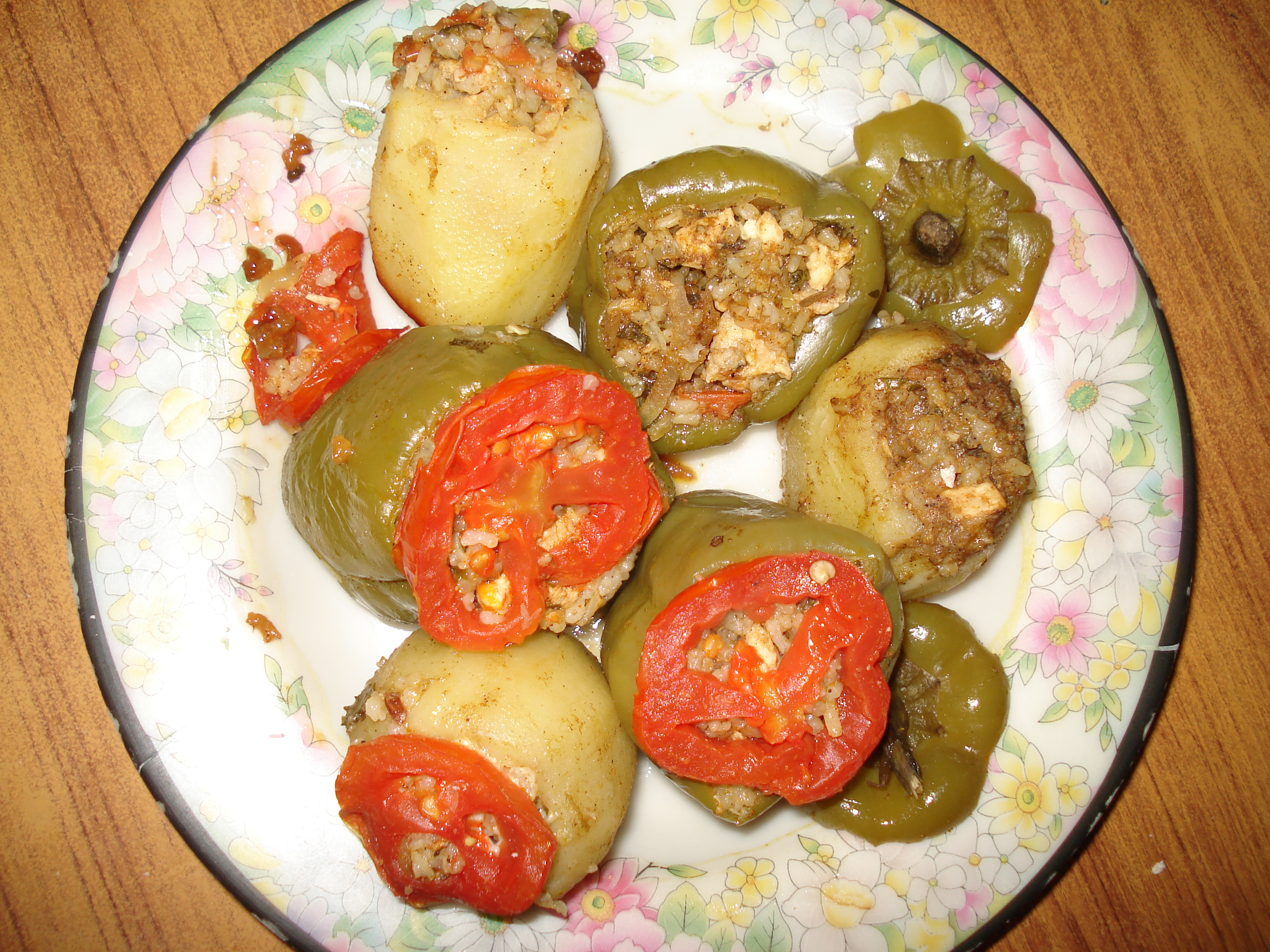 Dolma